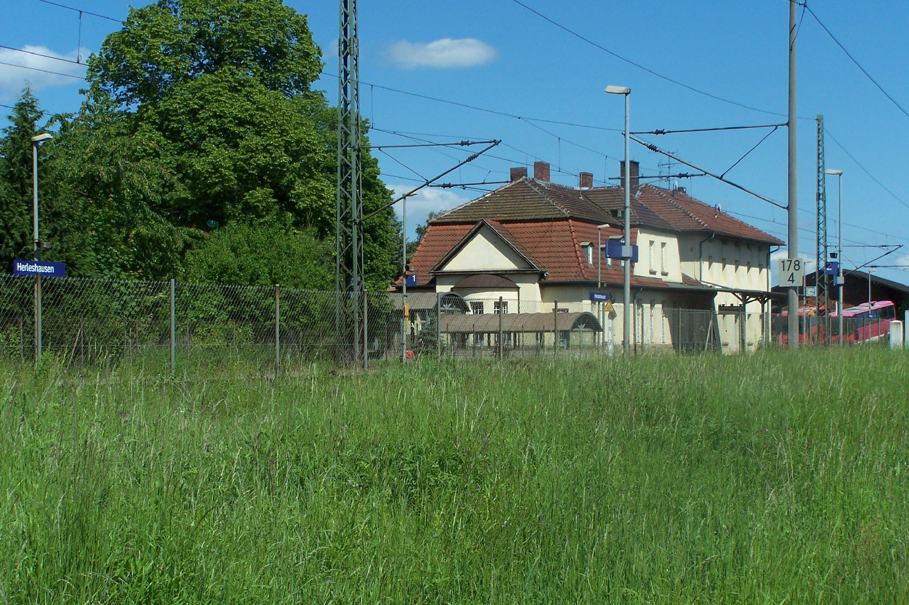 At Herleshausen train station.